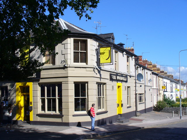 The Woodville Inner city pub in Cardiff at a crossroads location in Woodville Road.